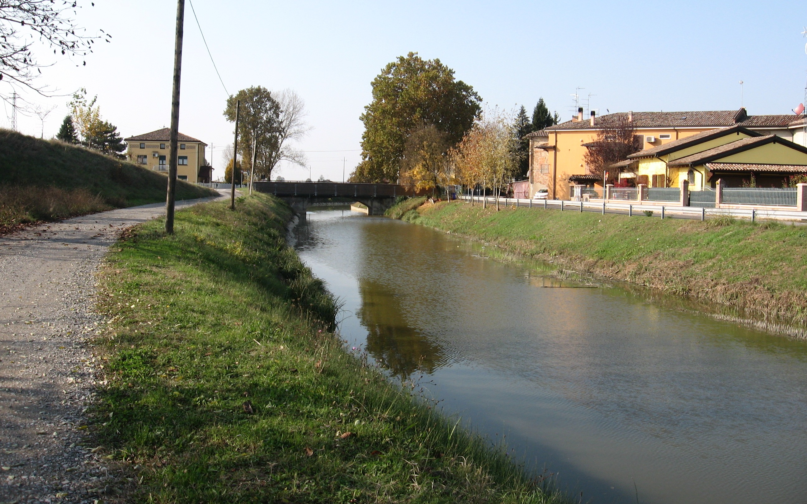 Parmetta canal near the bridge between Mezzano Inferiore and Coenzo